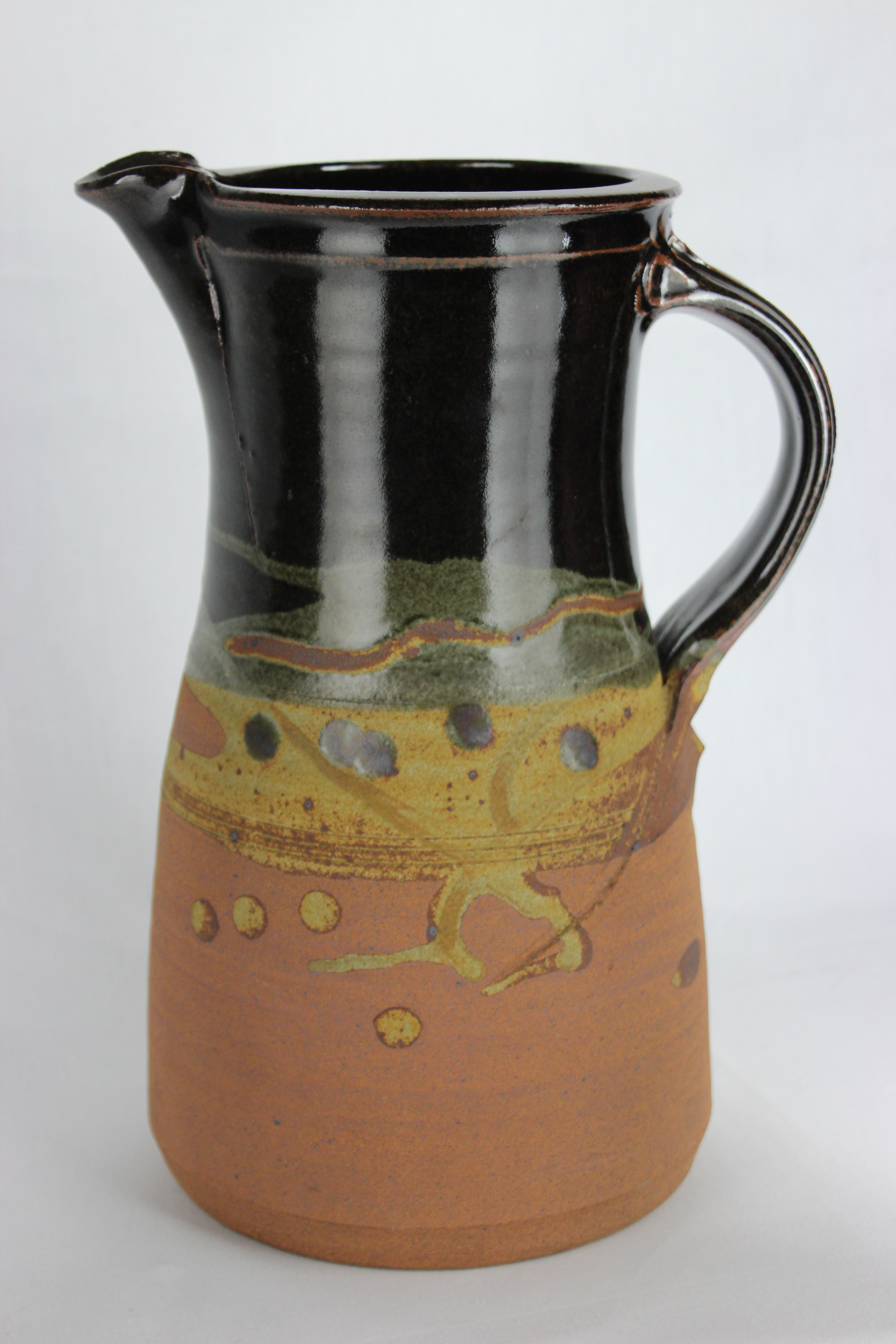 Large jug with brush work decoration in green and mustard. Neck dipped in brown glaze. Incised lines around middle of jar. From the W.A. Ismay Studio Ceramics Collection at York Art Gallery